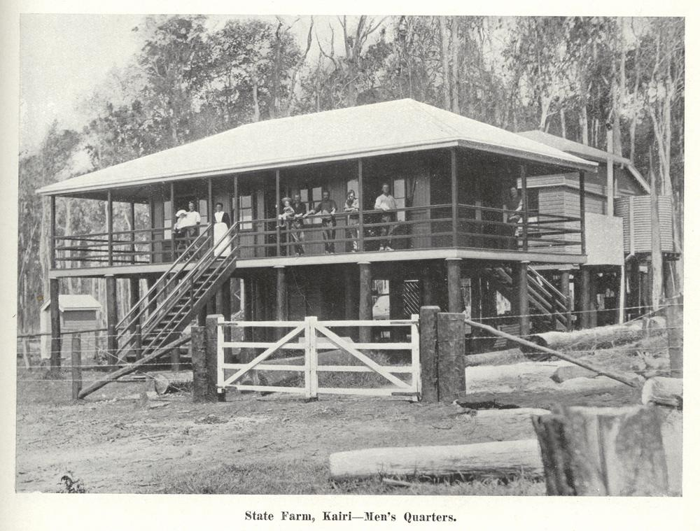 Men's quarters at the Kairi State Farm, south west of Cairns Highset timber house set in bushland had accommodation for the men working on the Kairi State Farm.